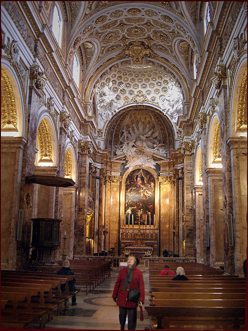 Interior of Church San Luigi dei Francesi, Rome.